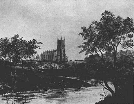 Christ Church, Attercliffe in 1826 from across the River Don. The cliff for which Attercliffe is named can be seen in front of the church.